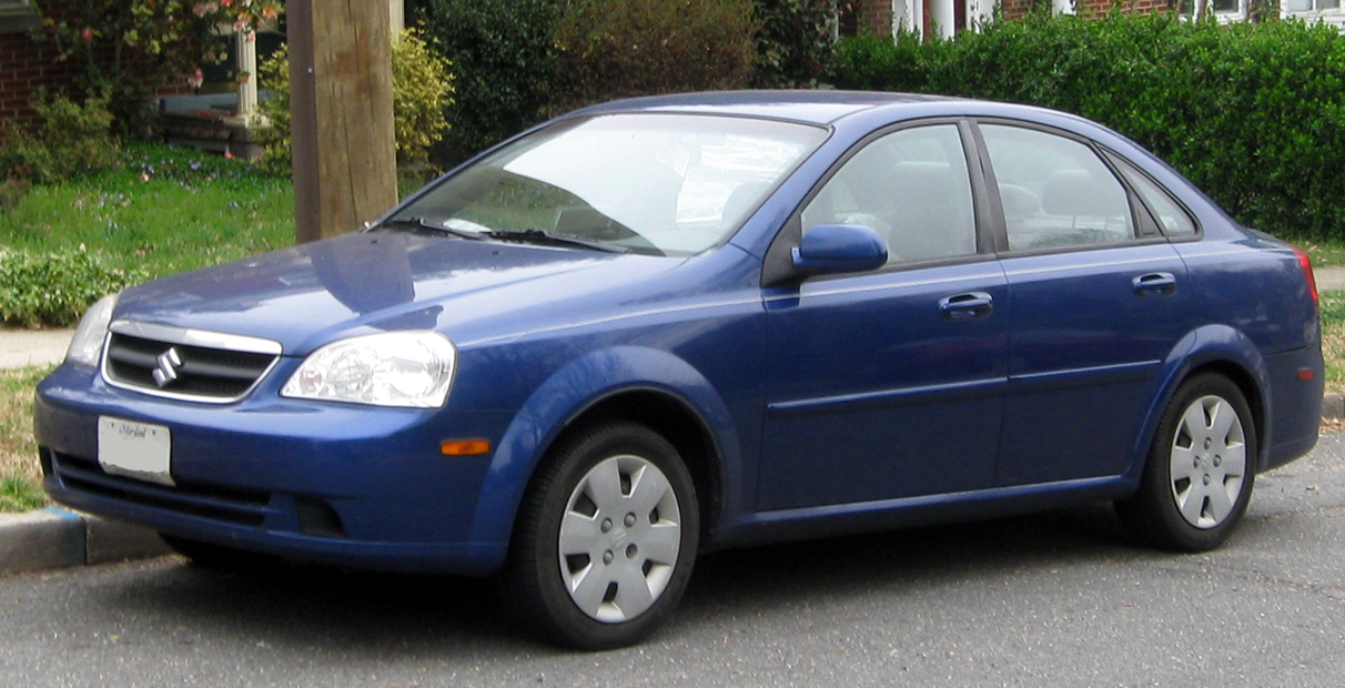 2006-2008 Suzuki Forenza photographed in Washington, D.C., USA.